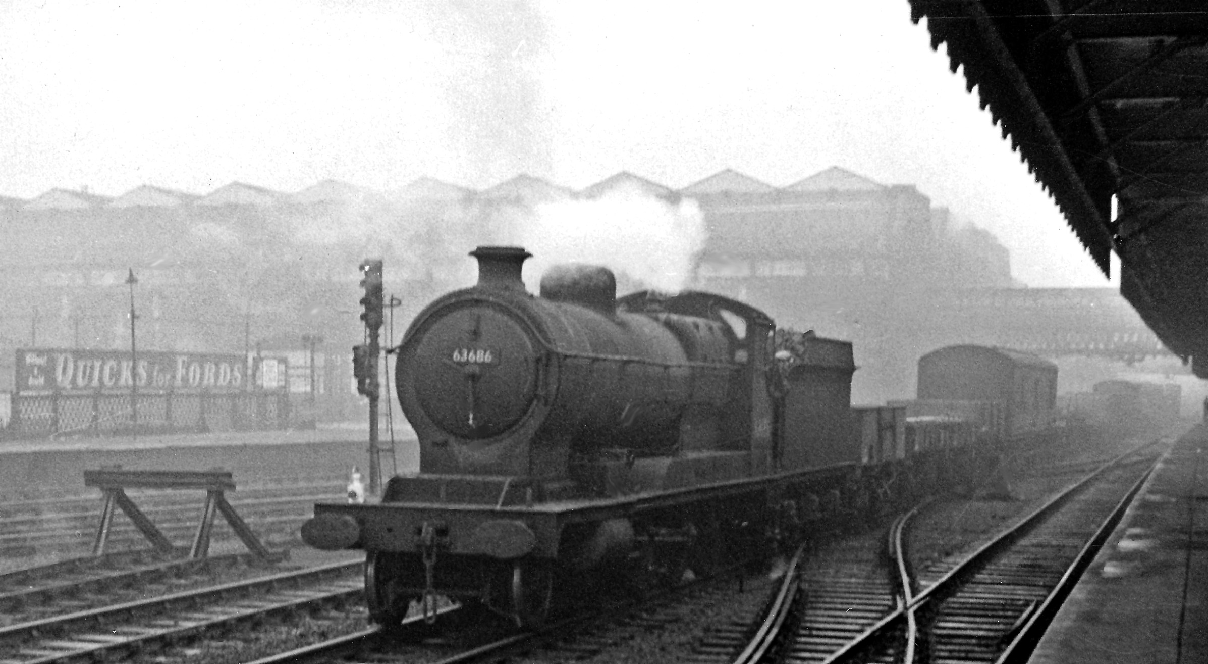 LNER 2-8-0 on westbound freight in the LMS stronghold, Manchester Victoria. View eastward, from the Platforms 3/11 joining Exchange with Victoria Stations in Manchester. The main through platforms of Victoria are on the left in the wintry gloom. There was a constant flow of freight traffic across Manchester by this route. This ex-GC Class O4/3 2-8-0 No. 63686 was from Northwich (Cheshire Lines), probably working to Trafford Park Yard. These 521 O4/3 2-8-0's were from Robinson's very successful Great Central Class 8A of 1911 (LNER Class O4), which were ordered in February 1917 by the War Office (Railway Operating Department) for operation behind the Western Front with the British Army: in the event only 52 many were in fact sent over to France and none was lost. Most were built after the War had ended in November 1918. After World War One these 'ROD's' were stored in dumps for many years before eventually being sold to the main line Railways. In World War Two, 92 O4's were requisitioned again and sent to the Middle East, never to return.